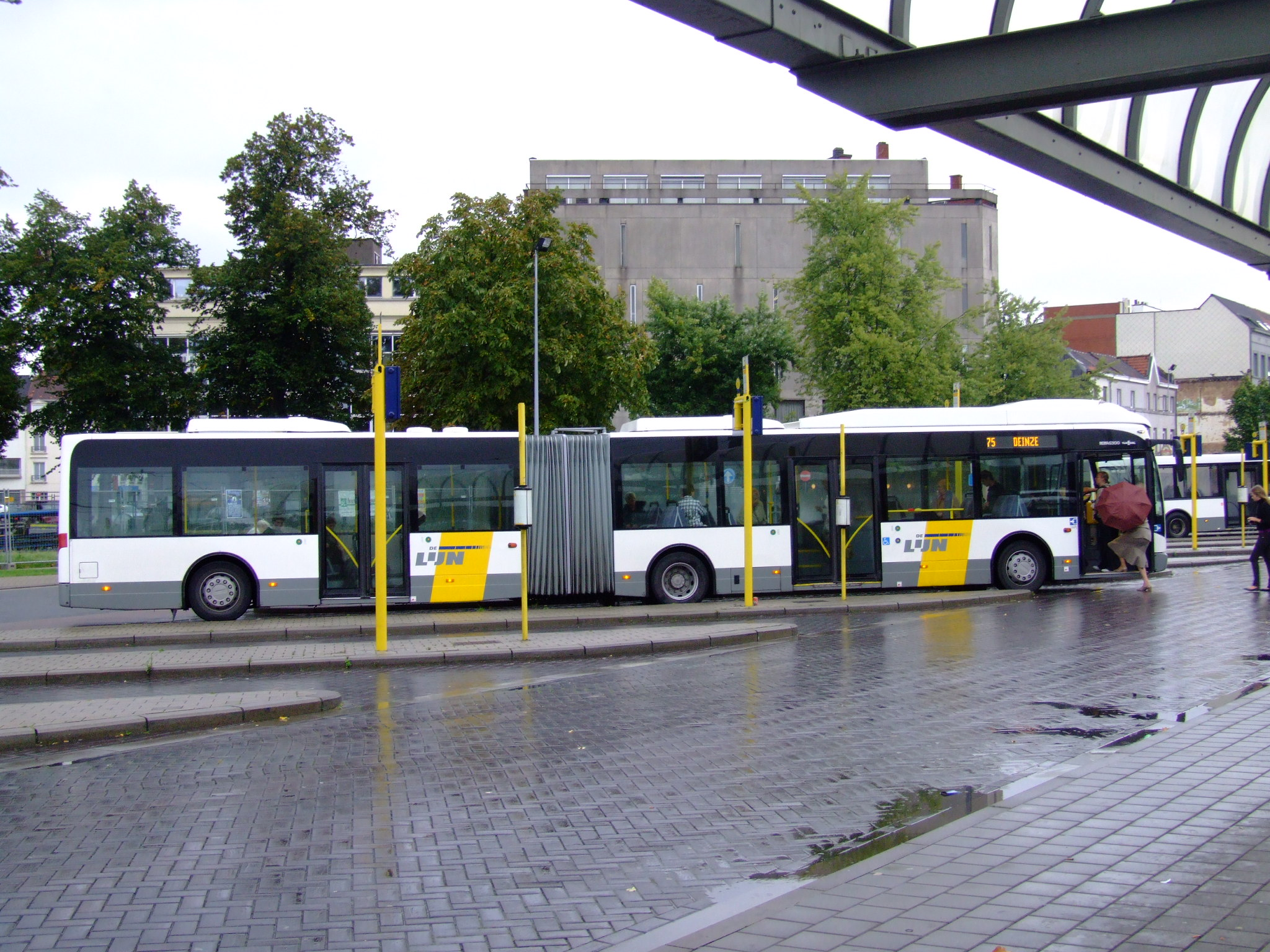 Kortrijk train station Belgium and the former bus station in front. Van Hool AG300 bus.